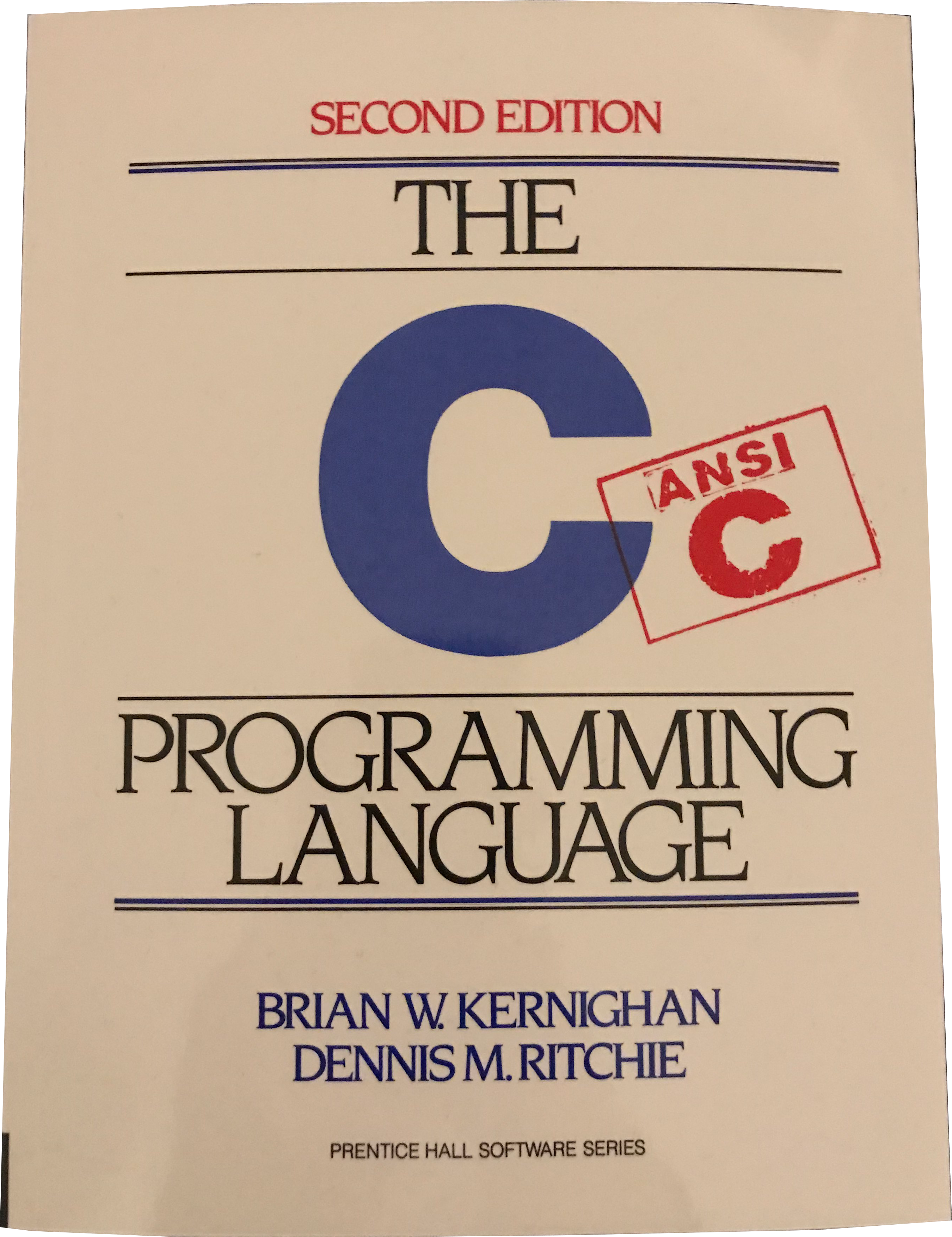 The Cover of the book "The C Programming Language"